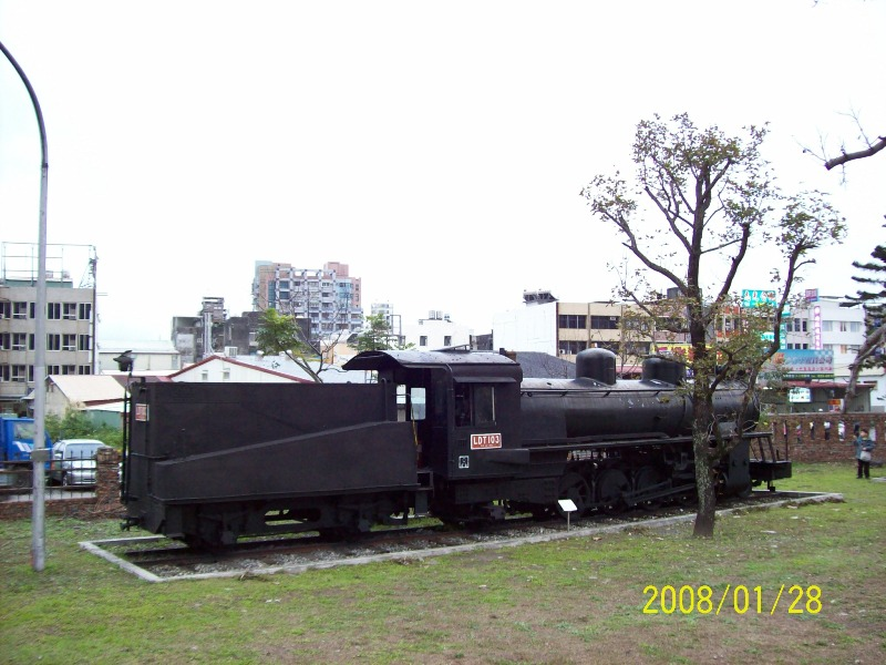 花蓮老火車 010 Taiwan Railway Administration Steam locomotive LDT103 at Hualien